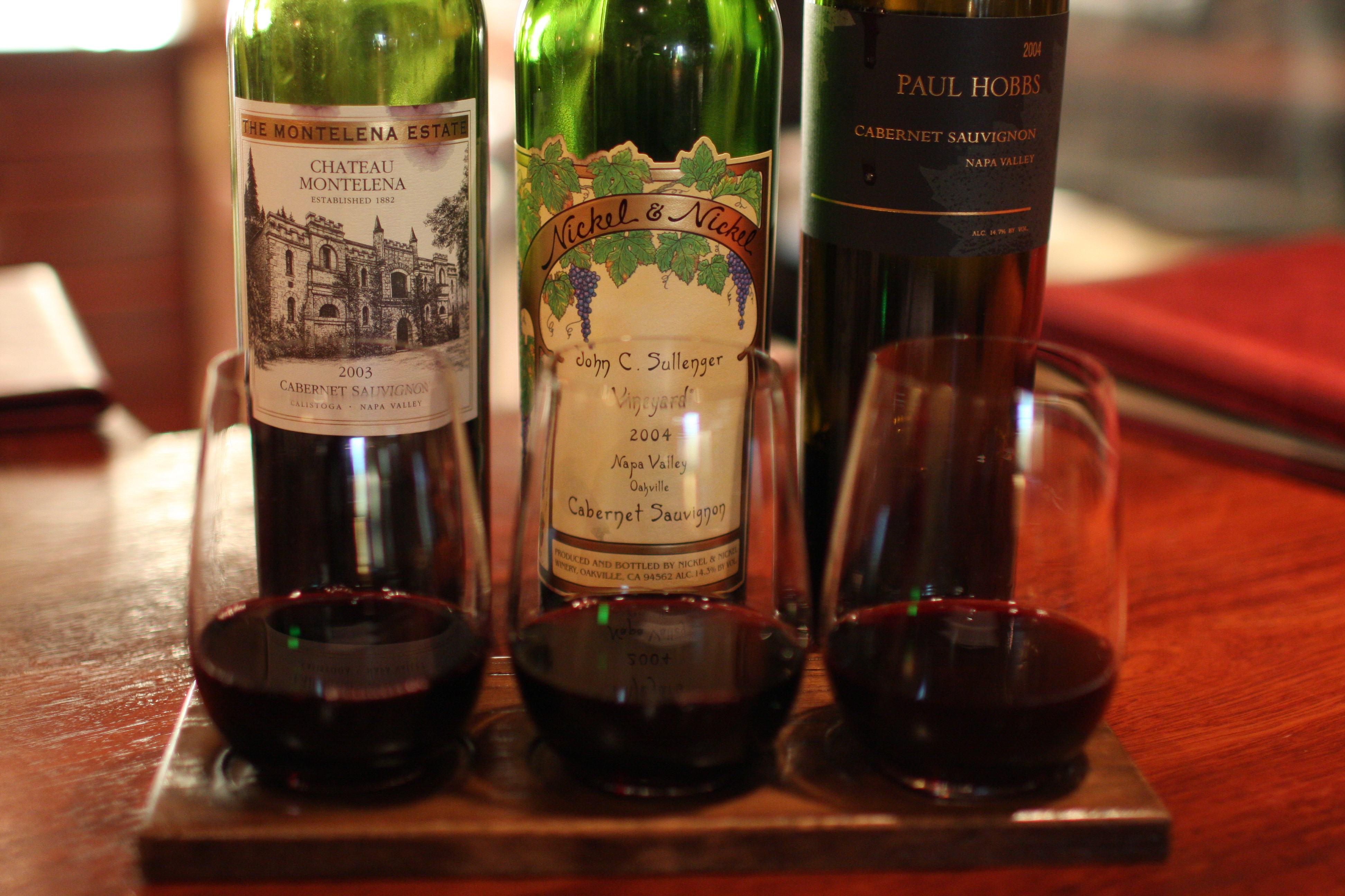 California Cabernet from Napa Valley including Chateau Montelena, Nickel & Nickel & Paul Hobbes in stemless Reidel glasses